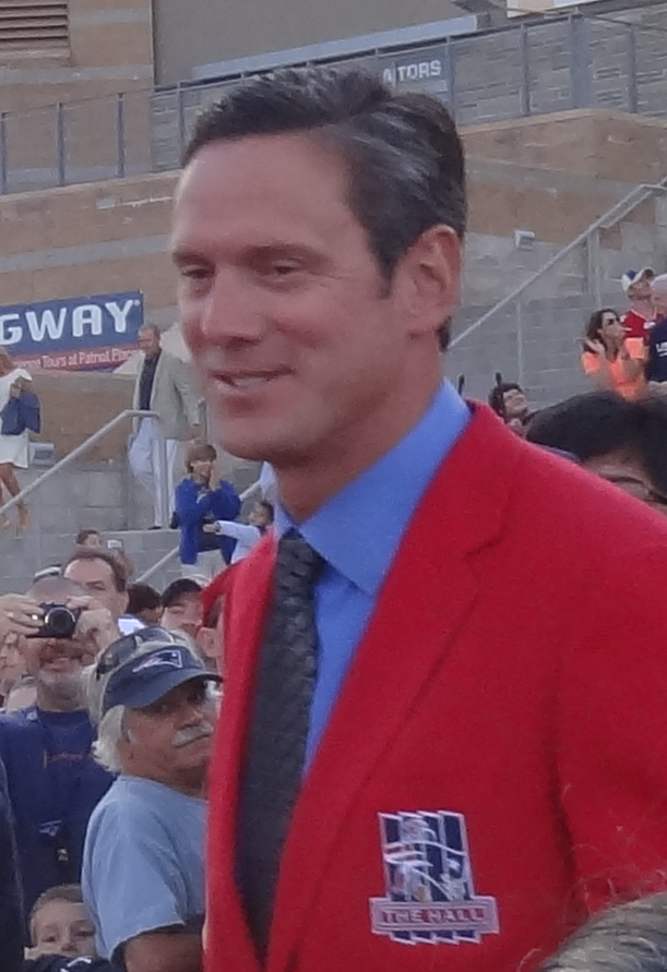 Drew Bledsoe at Troy Brown's induction ceremony into the New England Patriot's Hall of Fame.